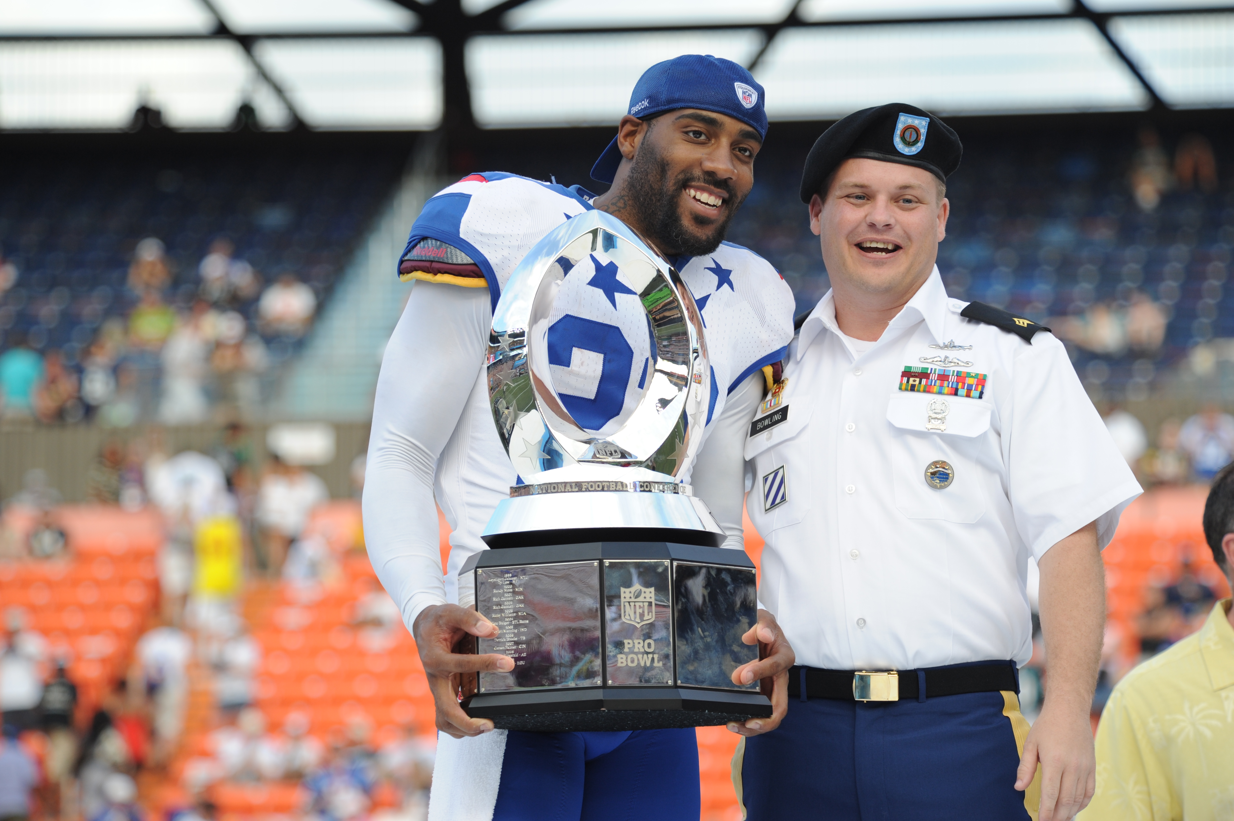 HONOLULU, Hawaii - U.S. Pacific Command Army Sergeant Gregory Bowling, a native of San Antonio, Texas poses for a photo with Washington Redskins cornerback, DeAngelo Hall after the player learned he had won the Most Valuable Player Trophy at the conclusion of the 2011 Pro Bowl held at Aloha Stadium in Honolulu, Hawaii on Jan 30.Sergeant Bowling had the honor of being on the stage because he was PACOM's Community Service Military Person of the Year.This is the 31st time that the event was held in Hawaii, which it was held for 30 years straight until last year when it was held in Miami, Fla. in an effort to renew interest in the game. That decision was met with much debate and criticism by fans and players and the game was brought back to Hawaii this year. Hawaii is home to many U.S. military and their families and many of those individuals were involved in the setup of the event. Service members volunteered to help with the stage crew, team color guardsmen, overall setup in addition to supporting the military color guard and a flyover conducted by the U.S. coast Guard. (U.S. Air Force photo/Master Sgt. Cohen A. Young)